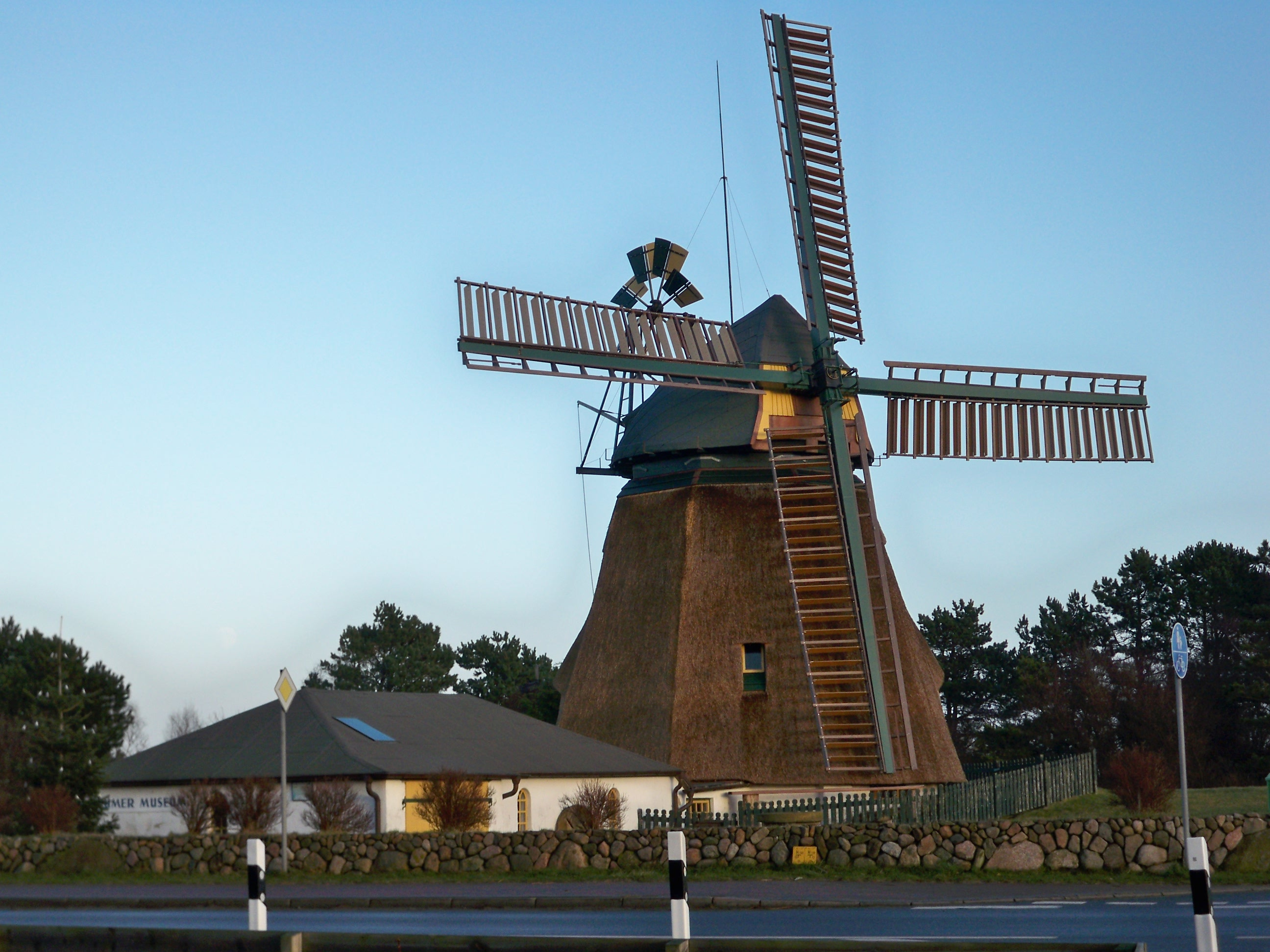 Amrum, Nebel, wind mill in "cross position" to indicate a burial on that day in Nebel, with local museum